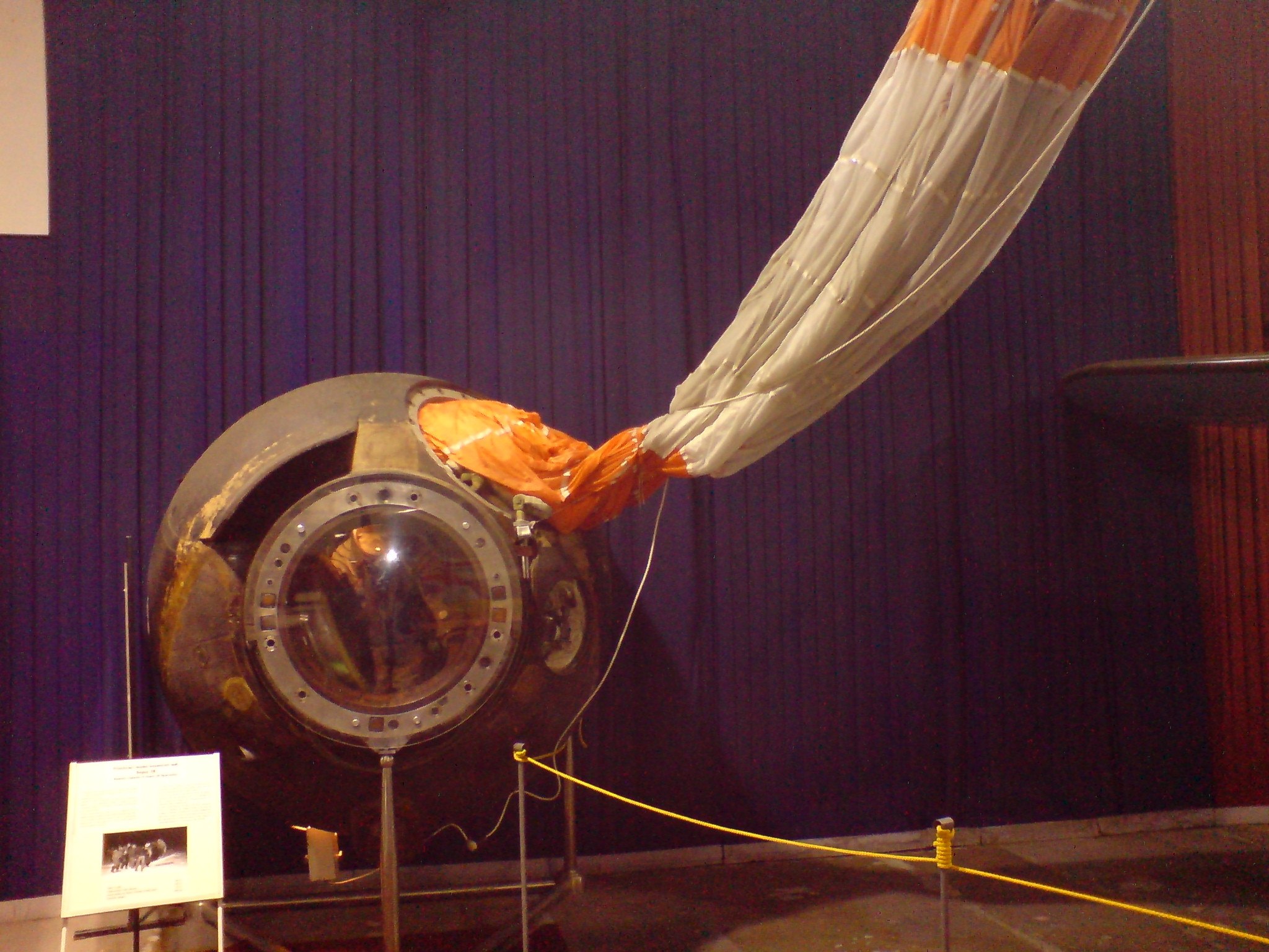 Modul used by Vladimír Remek (Prague Aviation Museum, Kbely)